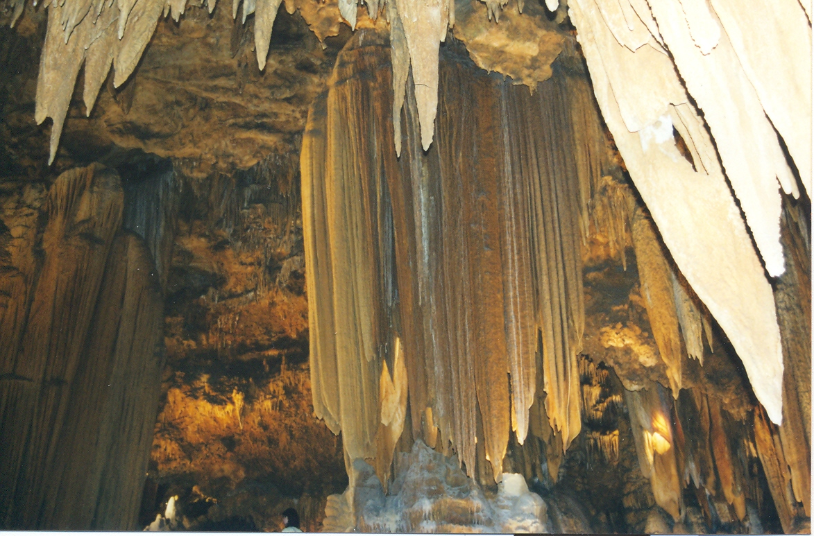 From Luray Caverns, Va. Photo by Jan Kronsell, 2002